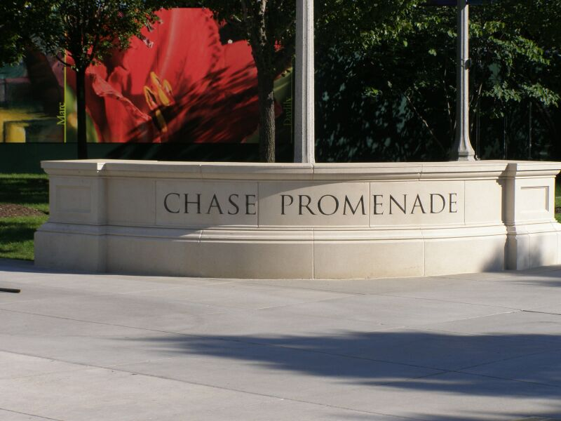 Entry to Chase Promenade (Chicago)